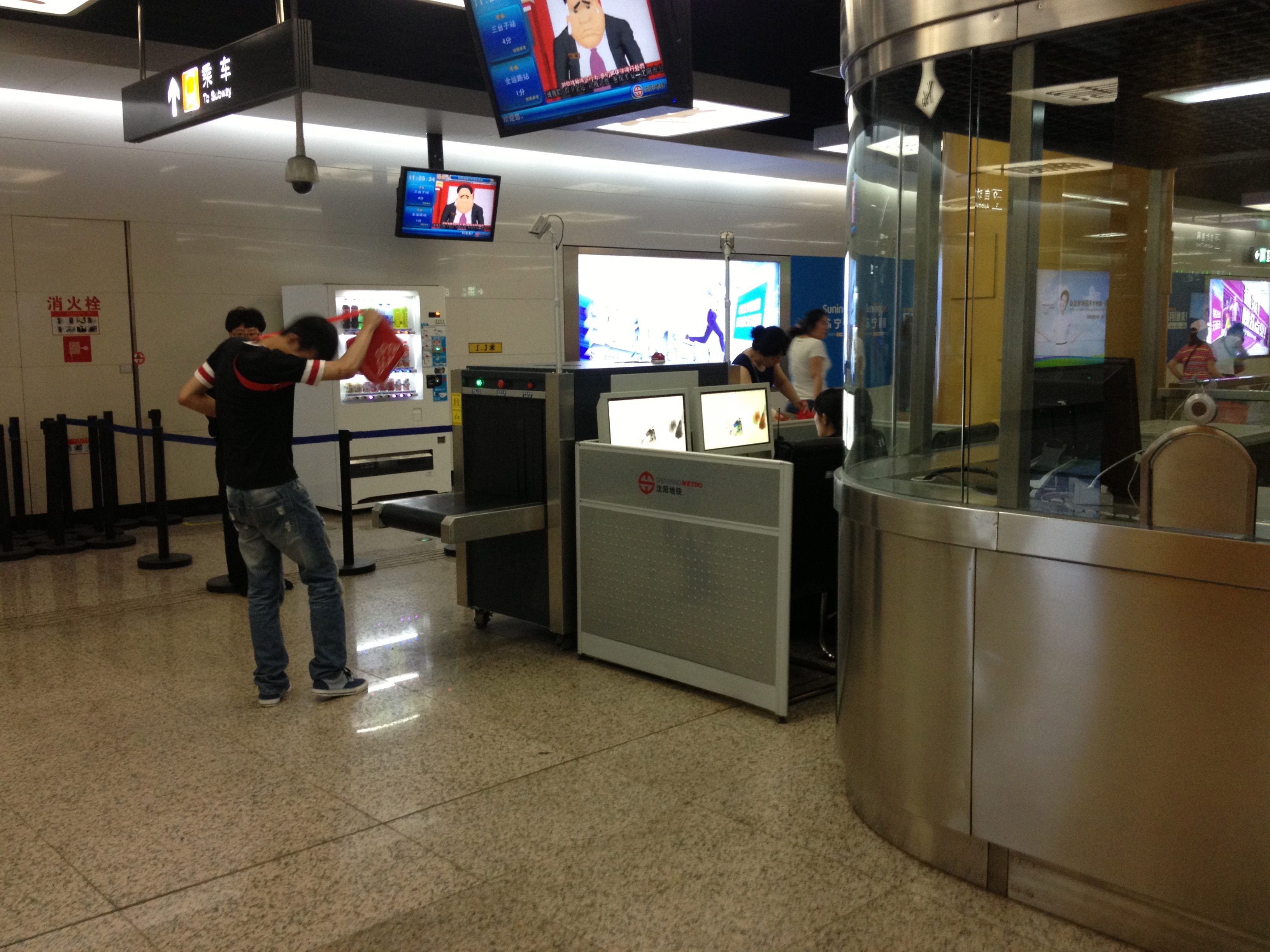 Shenyang Metro Security Check